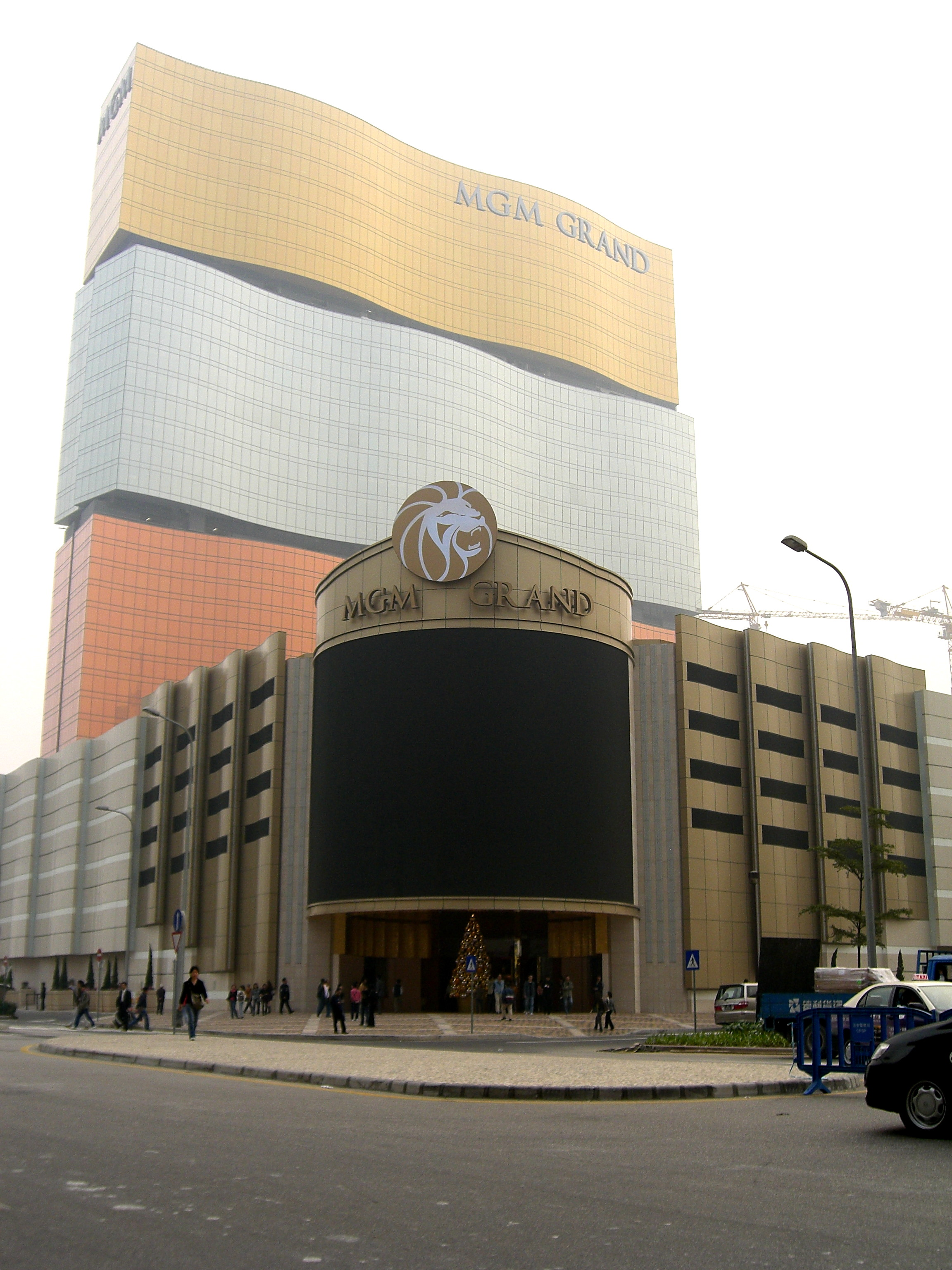 The back of MGM Grand Macau